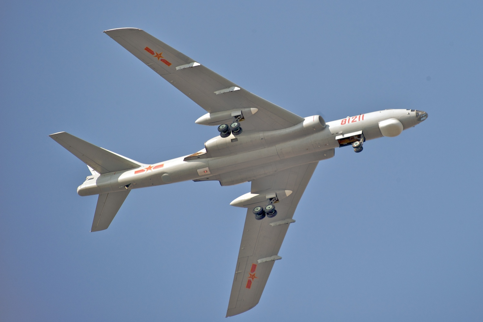 PLAAF Xian H-6M makes a turn over central Changzhou